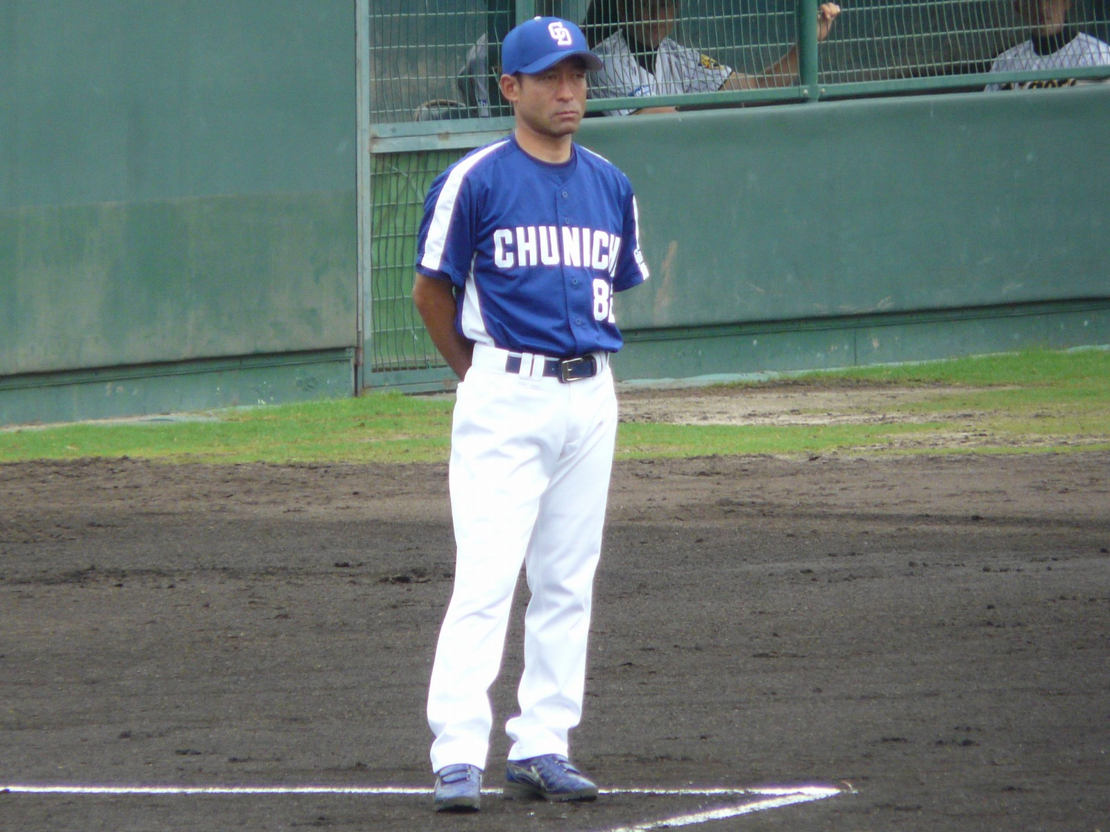 Copied from 画像:CD-Hiroshi-Narahara.jpg: "奈良原浩"